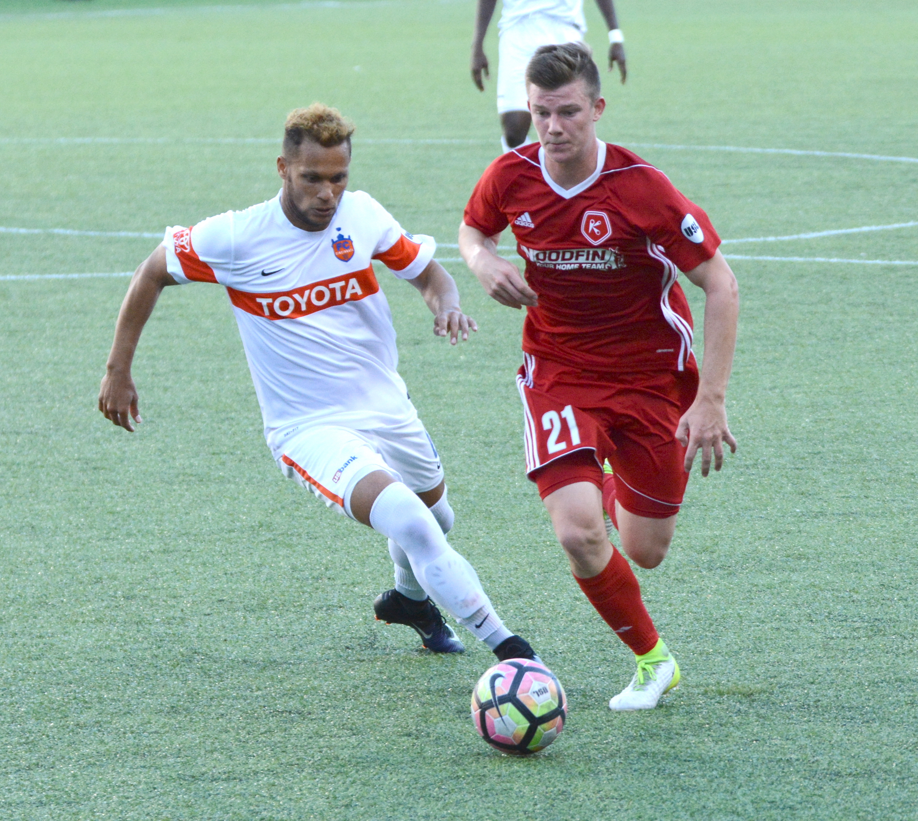 Taken during a USL regular season match between FC Cincinnati and Richmond Kickers at Nippert Stadium in Cincinnati, USA on July 9, 2017.